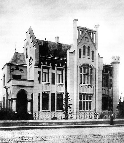 Moscow, Kuznetsova House, 1893-1896. Architect: Fyodor Schechtel. Later expanded upward but retained Schechtel's facade treatments, see 2009 photo.